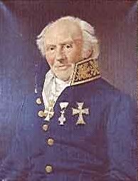 Danish architect Christian Frederik Hansen